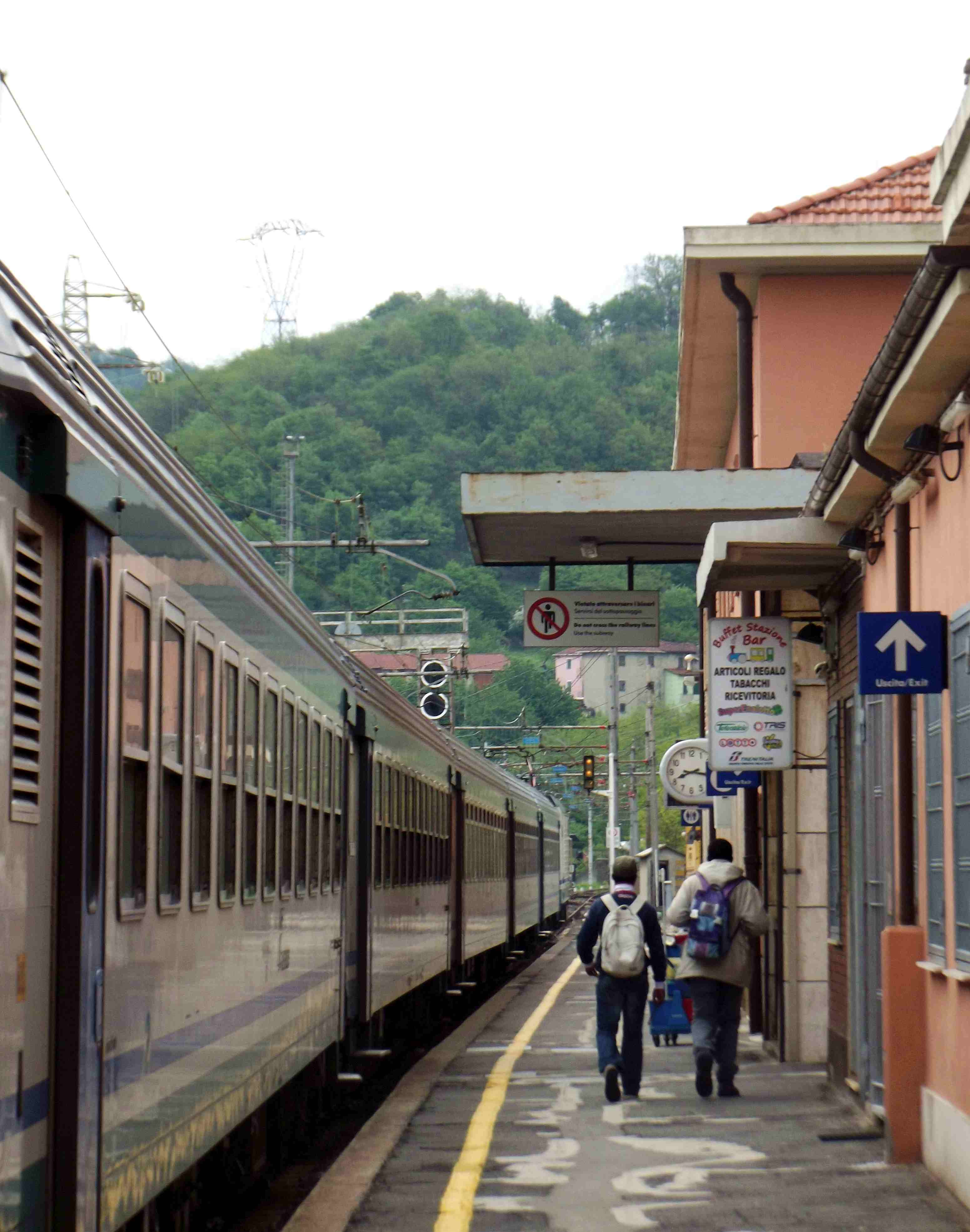 San Giuseppe di Cairo: train station